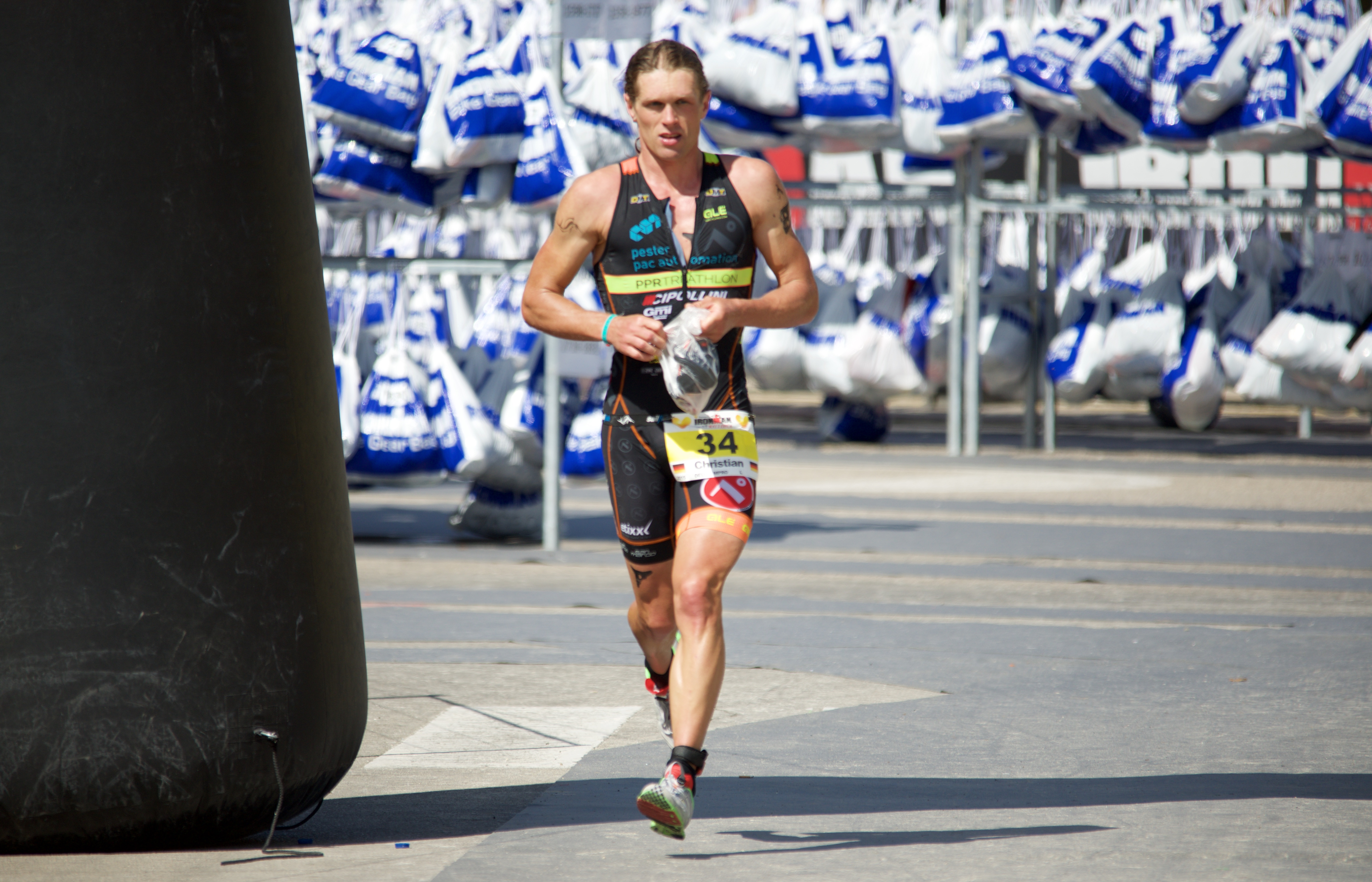 Christian Brader, Ironman Mallorca 2015